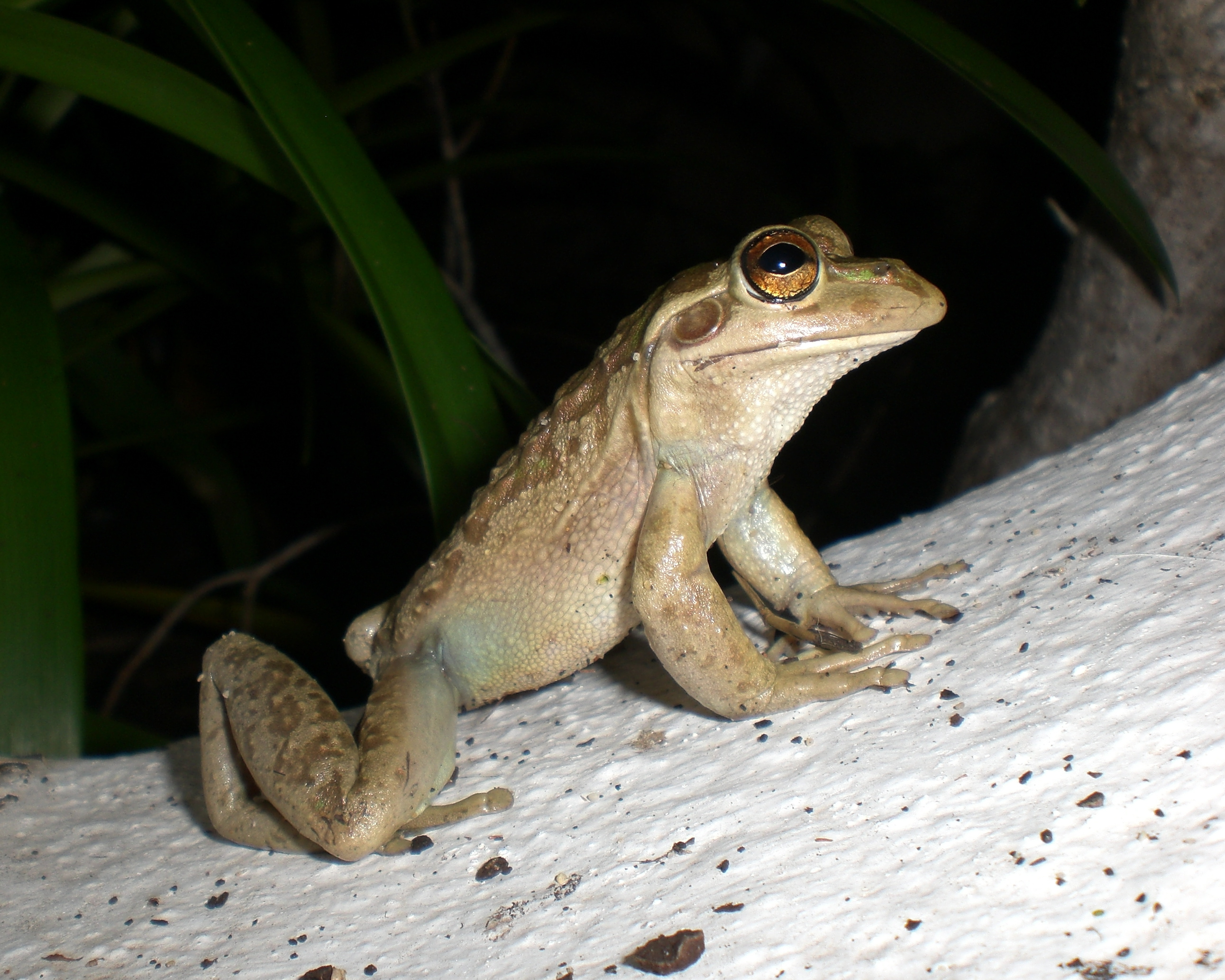 An image from a compact camera of Litoria moorei, one many active specimens in a garden in Swanbourne, Western Australia.